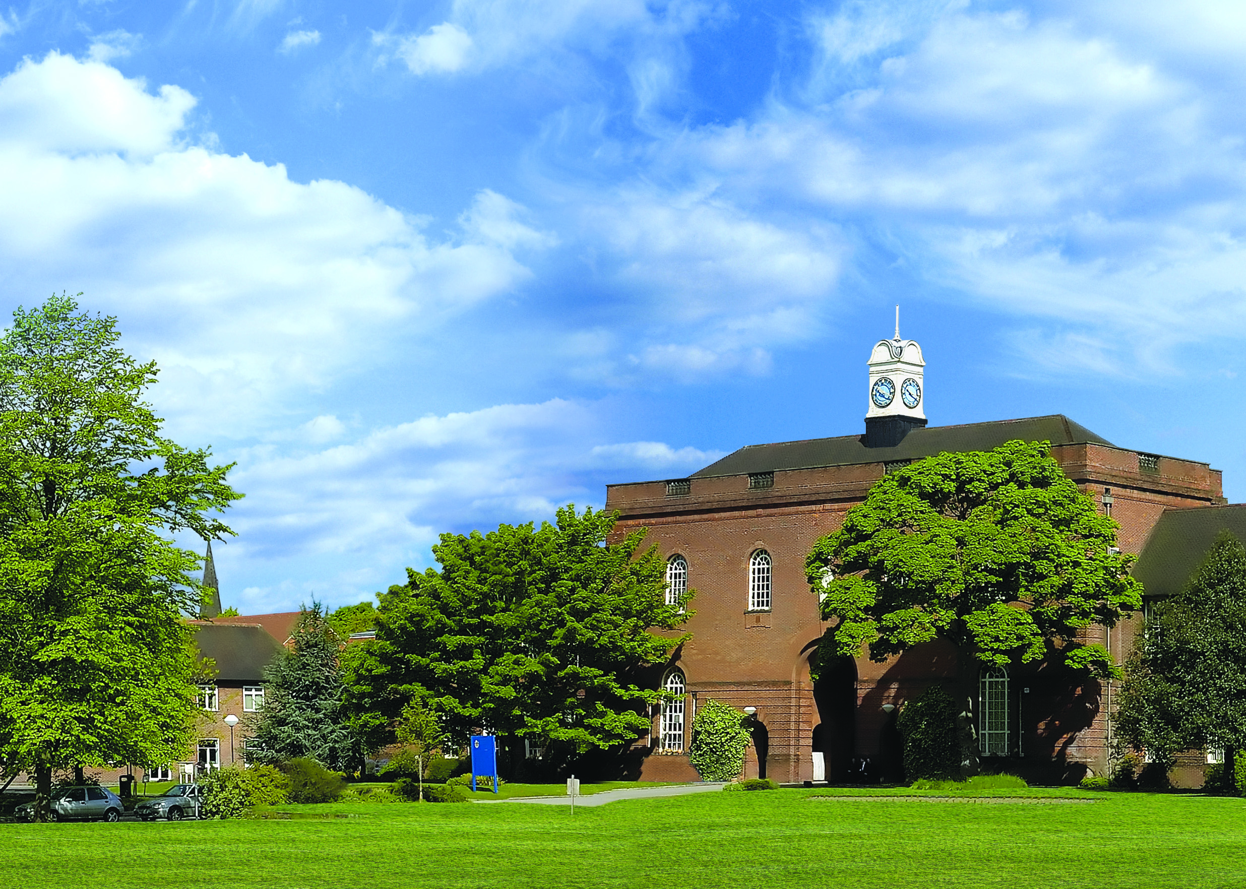 The front of The Manchester Grammar School